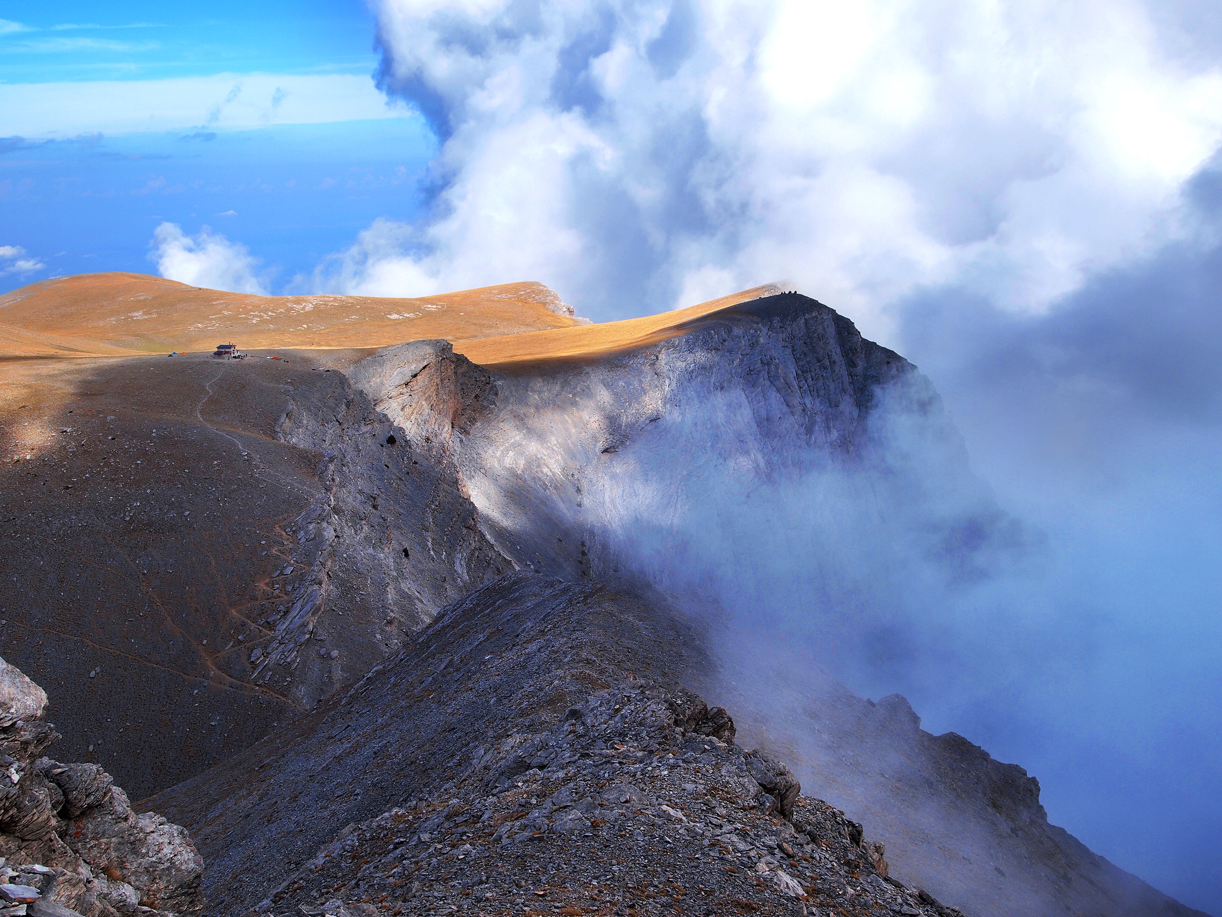 Το καταφύγιο "Χρήστος Κάκαλος" και ο Προφήτης Ηλίας, όπως φαίνονται από το Στεφάνι.